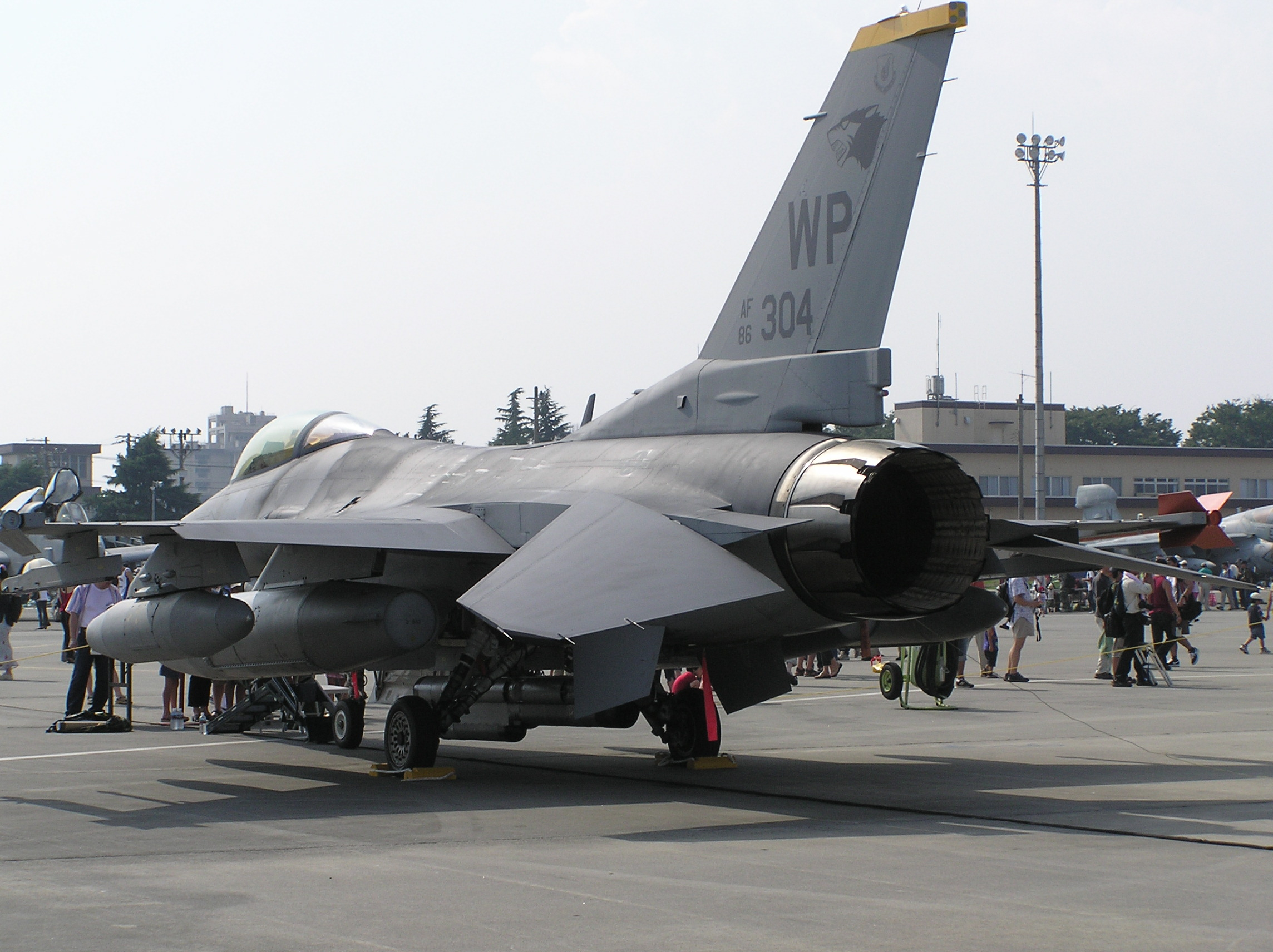 U.S. Air Force F-16 Fighting Falcon